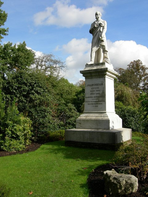 Palmerston Statue of Palmerston in (funnily enough) Palmerston Park.